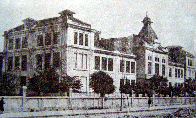 School Building of Count N.Ignatiev